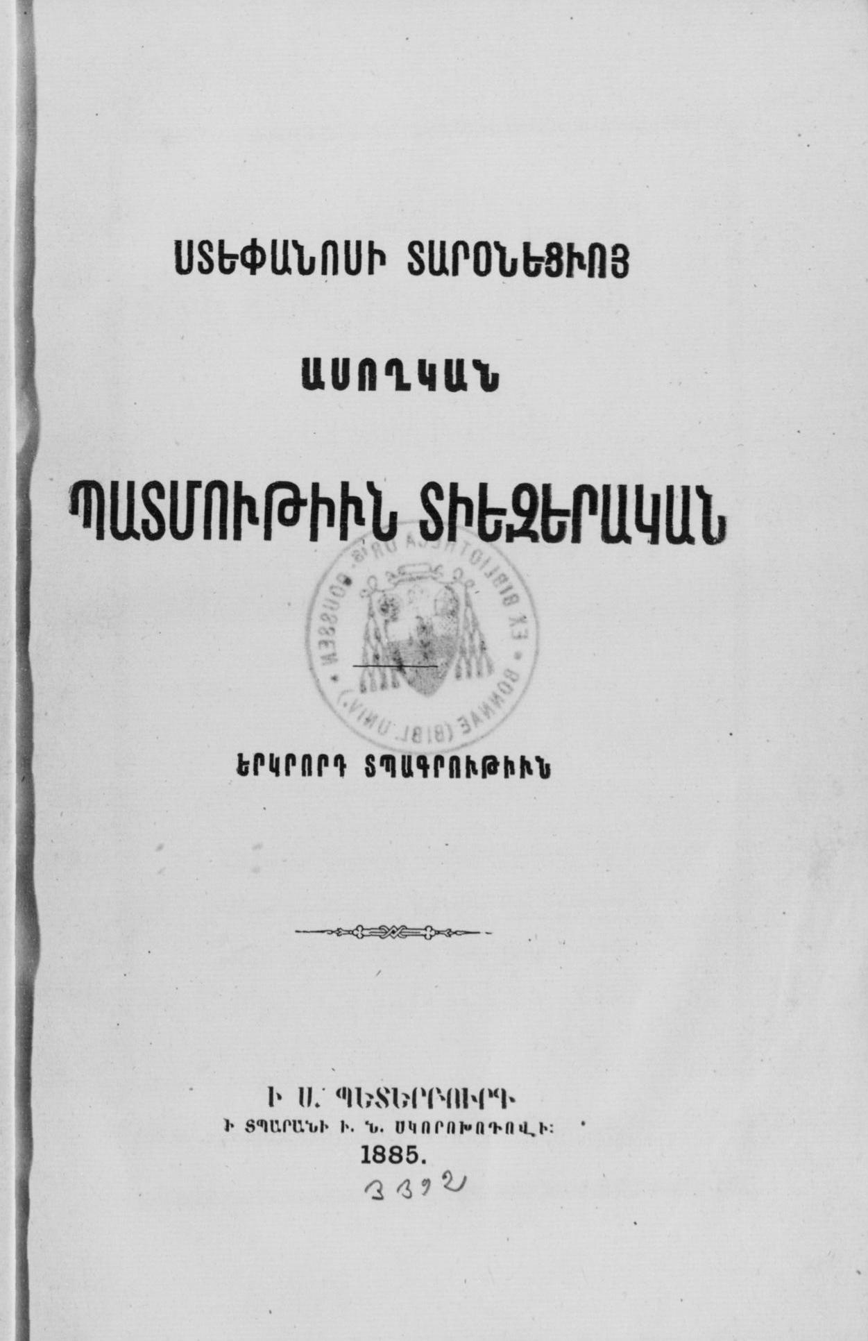 Universal History of Stepanos Asoghik